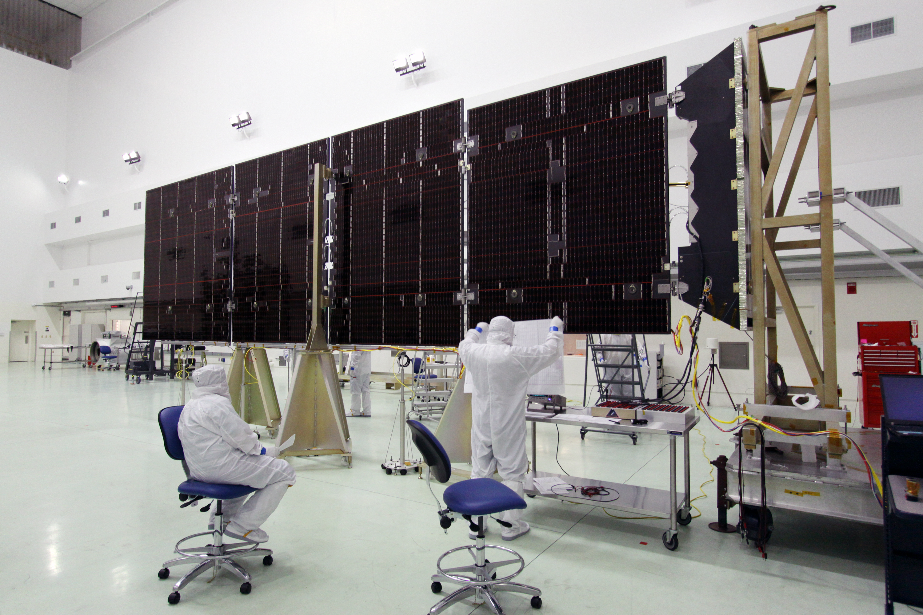 CAPE CANAVERAL, Fla. -- Technicians in the Astrotech payload processing facility in Titusville, Fla., prepare to test the electrical continuity of a solar array that will help power NASA's Juno spacecraft on a mission to Jupiter. Power-generating panels on three sets of solar arrays will extend outward from Juno’s hexagonal body, giving the overall spacecraft a span of more than 66 feet in order to operate at such a great distance from the sun. Juno is scheduled to launch aboard an Atlas V rocket from Cape Canaveral, Fla., on Aug. 5, 2011, reaching Jupiter in July 2016. The spacecraft will orbit the giant planet more than 30 times, skimming to within 3,000 miles above its cloud tops, for about one year. With its suite of science instruments, the spacecraft will investigate the existence of a solid planetary core, map Jupiter's intense magnetic field, measure the amount of water and ammonia in the deep atmosphere, and observe the planet's auroras. For more information visit